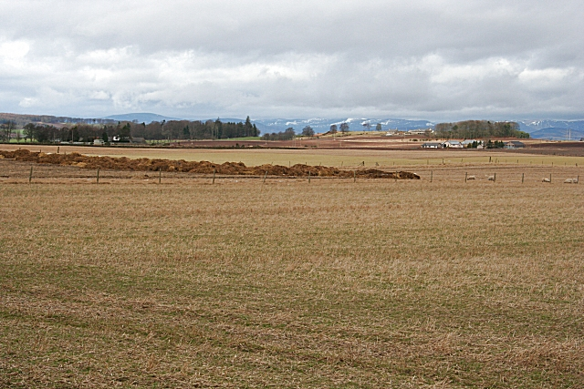 Kikrbuddo from Chamberlain Knowe